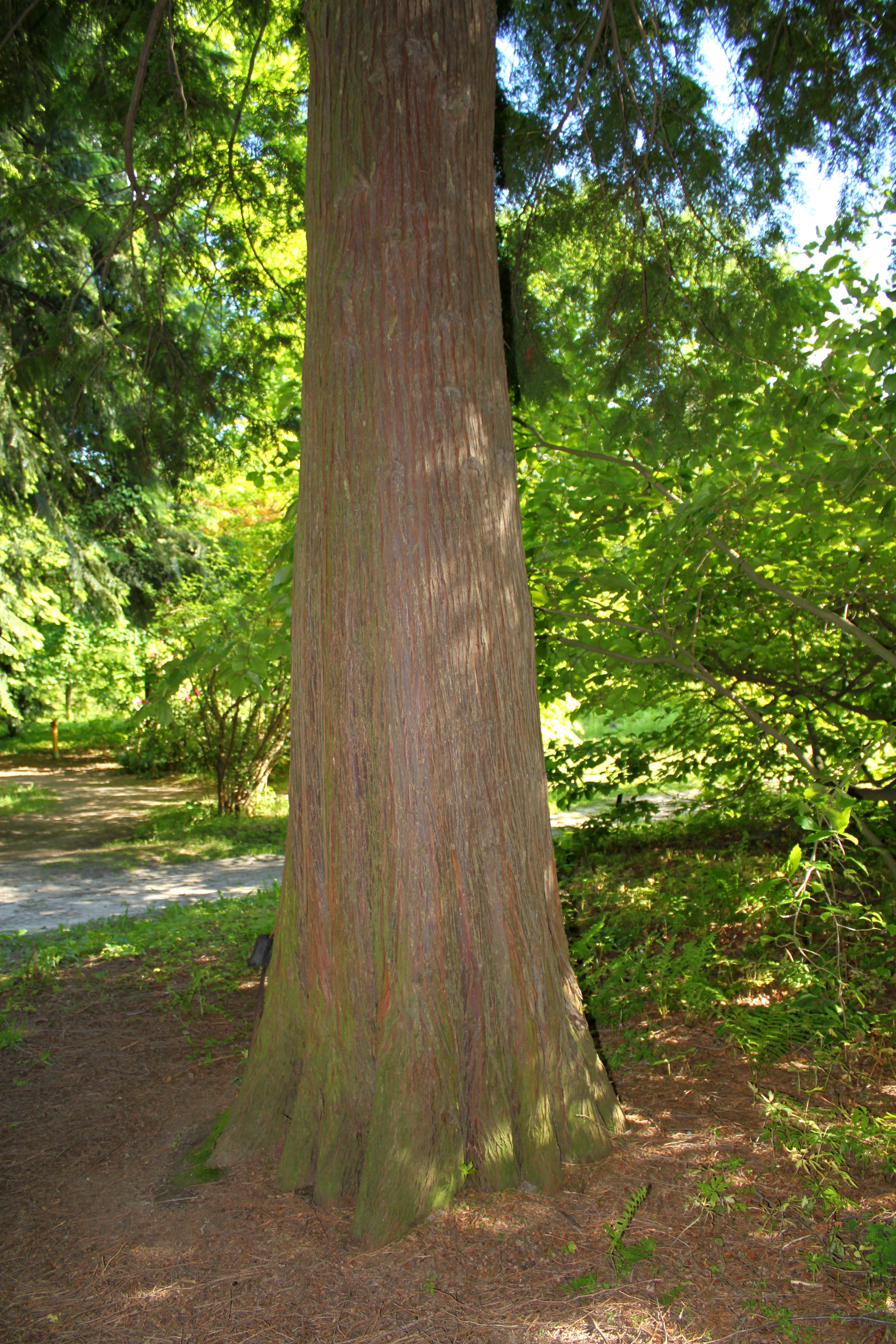 Western Redcedar (Thuja plicata) trunk in Rogów Arboretum, Poland